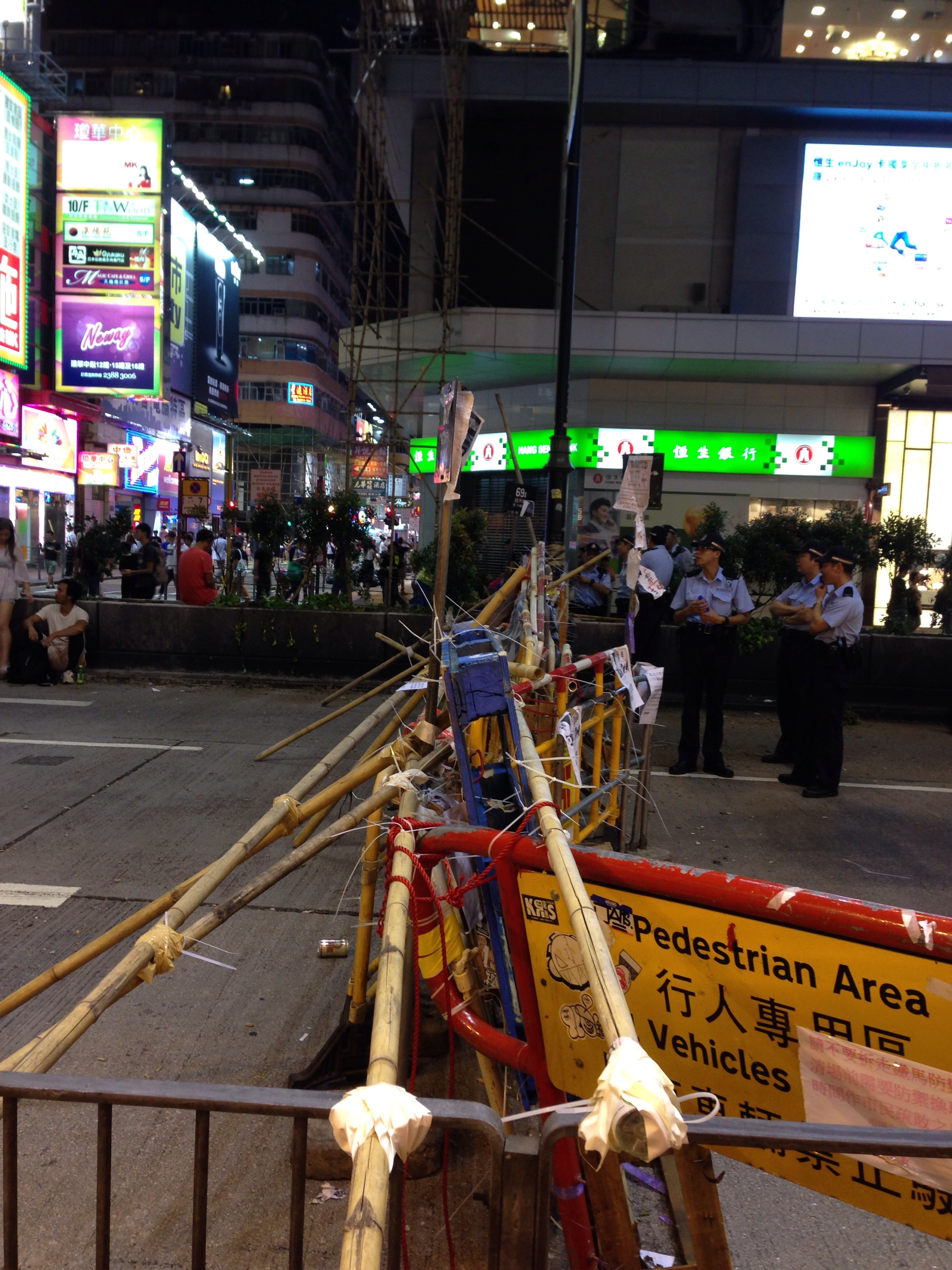 'Border' of Mongkok Occupation Area